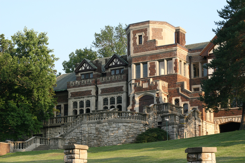 Epperson House, on the campus of the University of Missouri-Kansas City